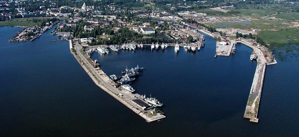 Lomonosov harbor